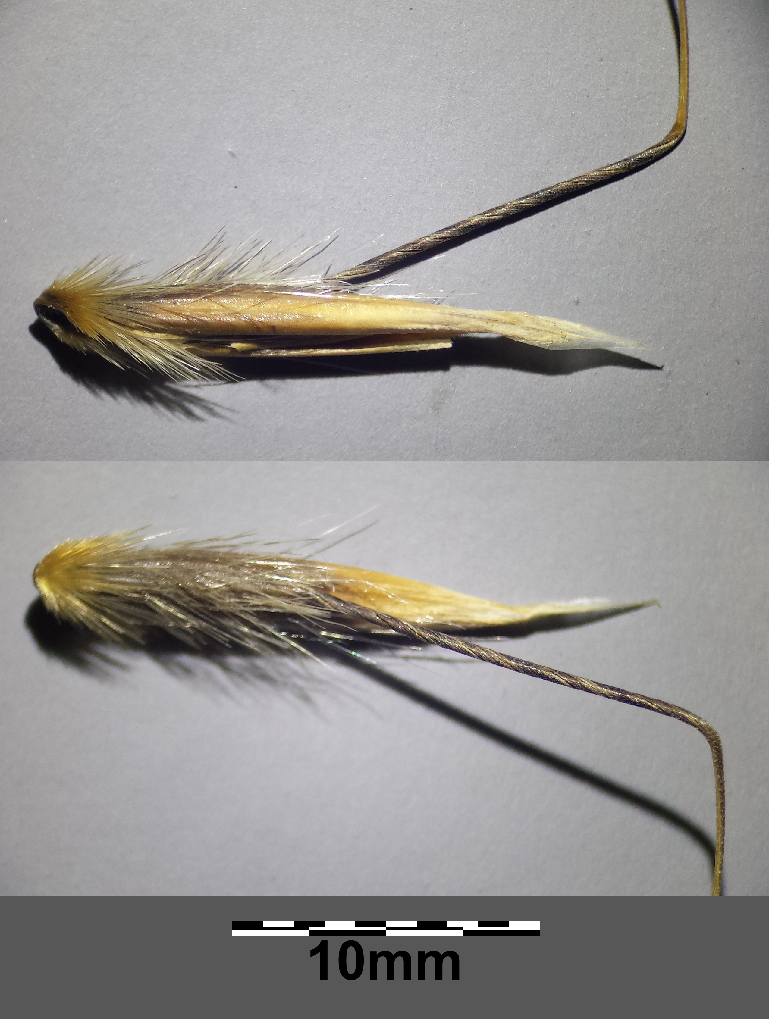 Caryopsis Taxonym: Avena fatua ss Fischer et al. EfÖLS 2008 ISBN 978-3-85474-187-9 Location: next to Groß-Jedlersdorf cemetery, Vienna-Floridsdorf - ca. 160 m a.s.l. Habitat: border of a field